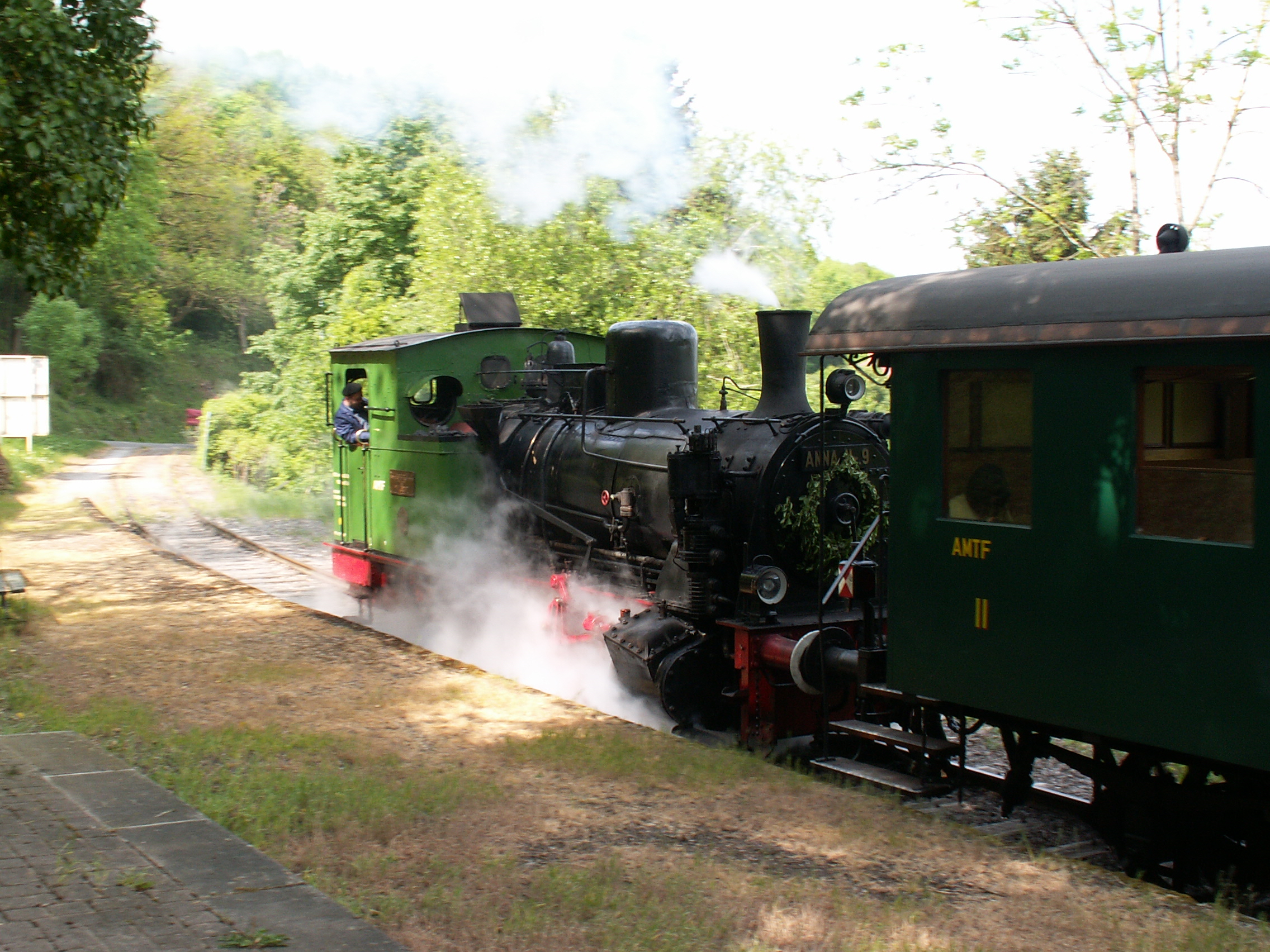 Steam locomotive "Anna 9" at Lamadeleine / Rodange (Grand Duchy of Luxemburg) on Train 1900 Heritage Railway. This Typ Crefeld, Hohenzollern 2227/1908 lok was formerly used by Eschweiler Bergwerks-Verein (EBV) at Alsdork Coke oven. The train is composed by 3 "Prince Henri" 3 axle coaches.